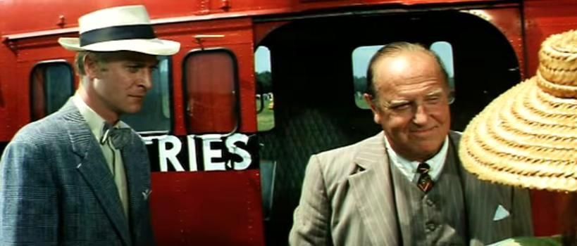 Michael Caine (left) & Loring Smith in Hurry Sundown - trailer (cropped screenshot)